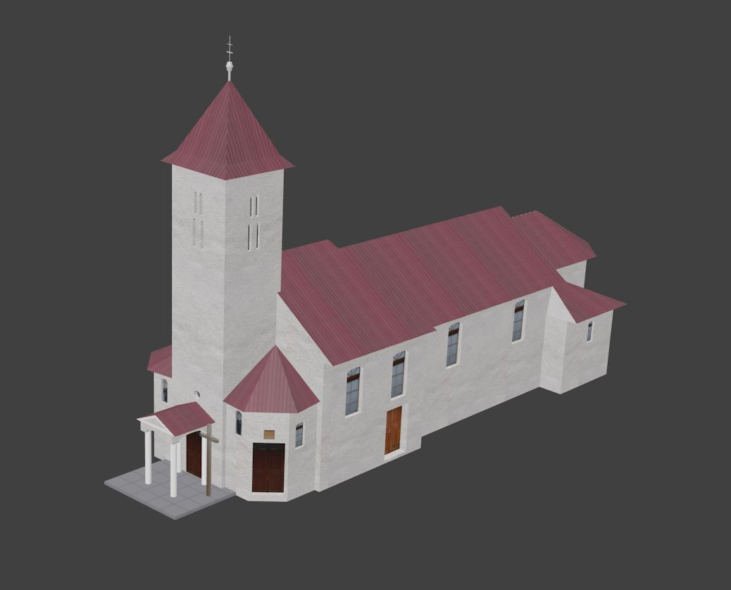 Model of church in Omsenie(Slovakia)